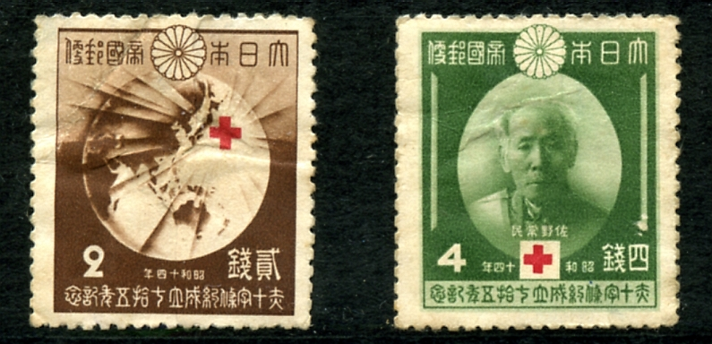 November 15, 1939 Commemorative issue of 75th anniversary of the founding of the Japan Red Cross